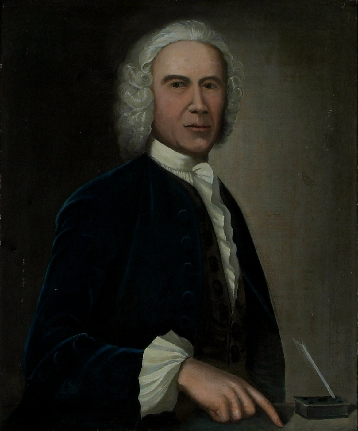 Portrait, Malachy Salter – member of the First Assembly